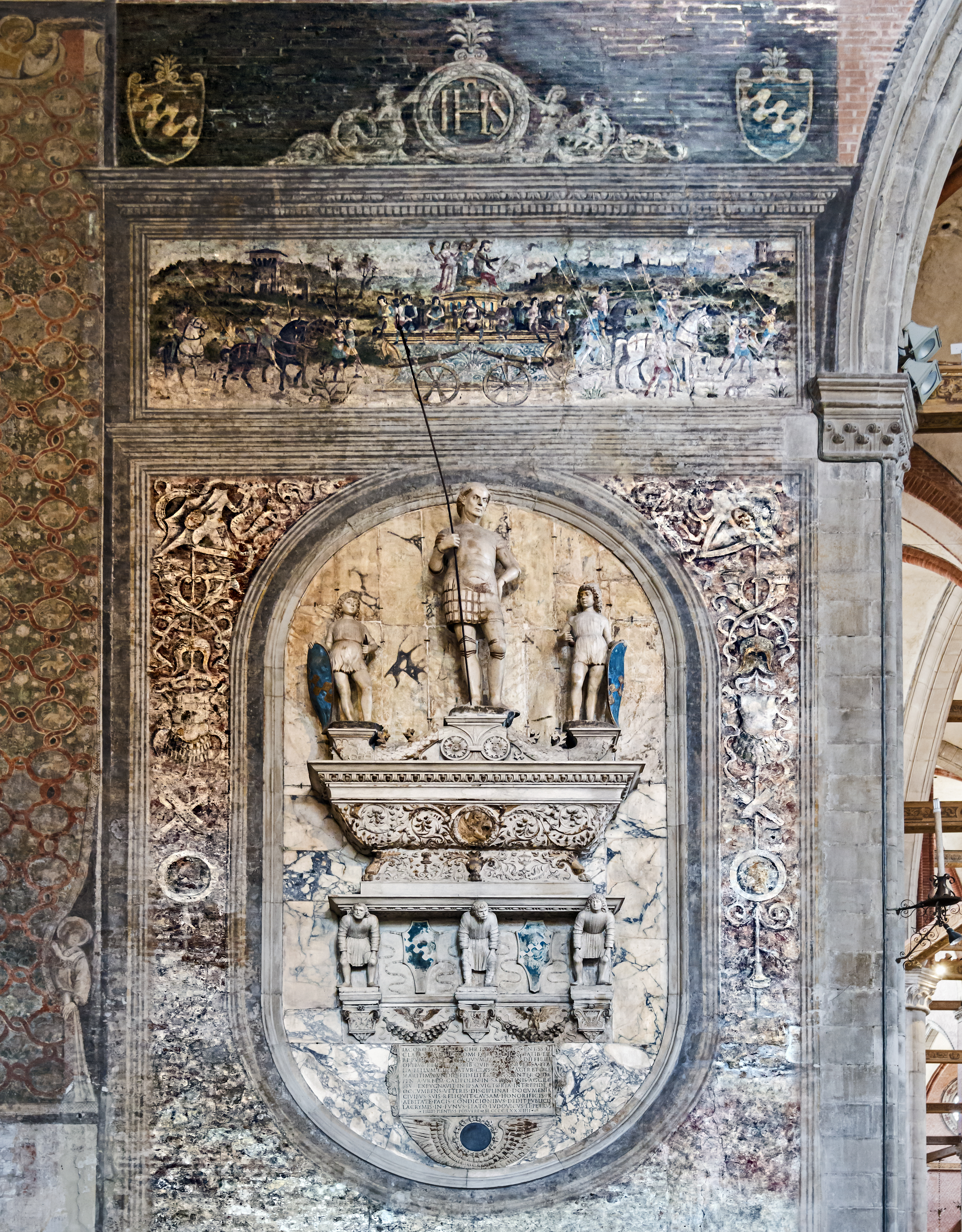 Santa Maria Gloriosa dei Frari. Monument to Jacopo Marcello (elected four times General de Mer in the fifteenth century. Died March 31, 1488 at Gallipoli in the attack that led to the conquest of the city) by Pietro Lombardo. Upper side:"hero triumph", fresco in the manner of Domenico Morone.